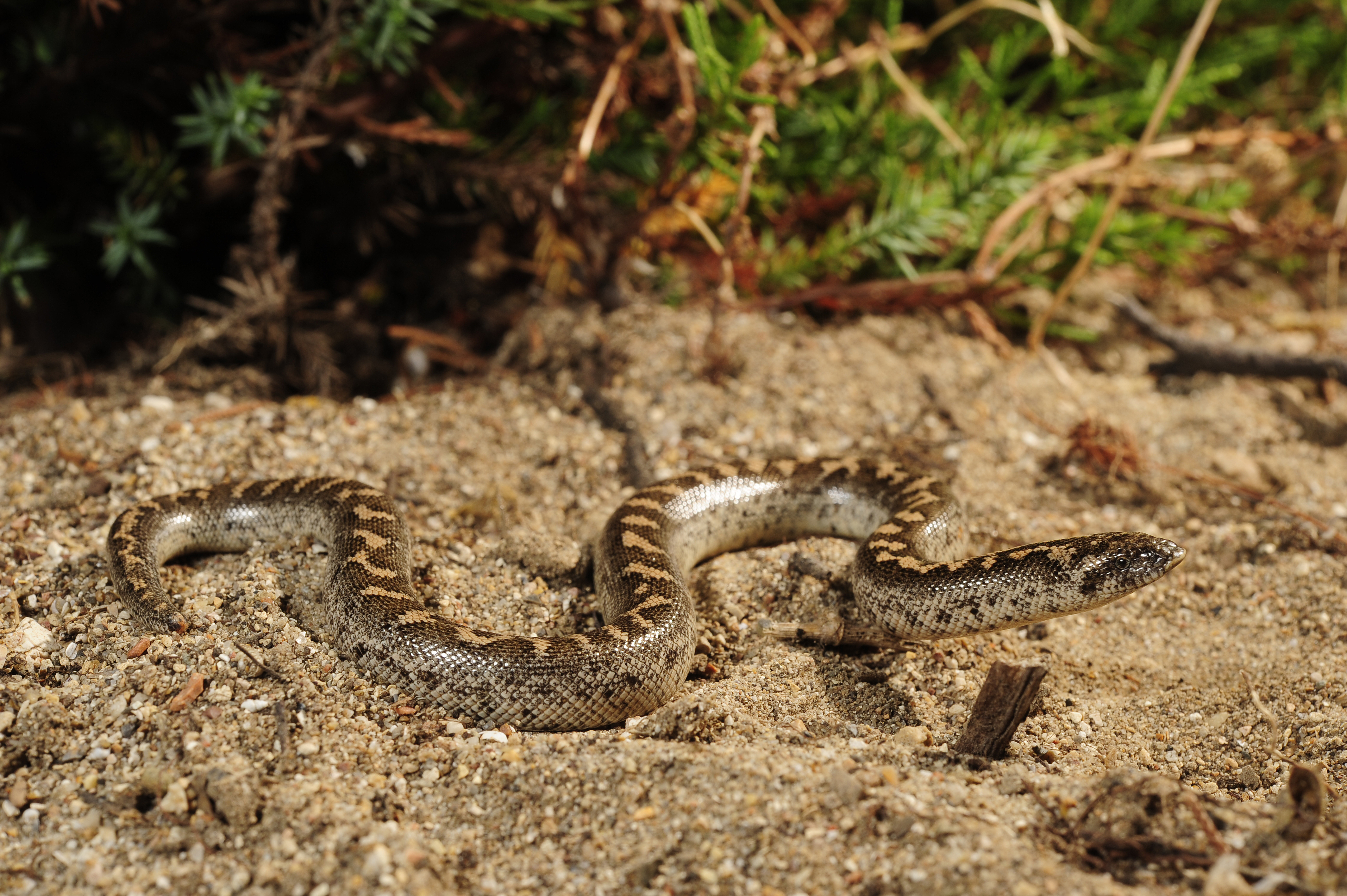 Eryx jaculus from Pylos (Peloponnese/Greece)